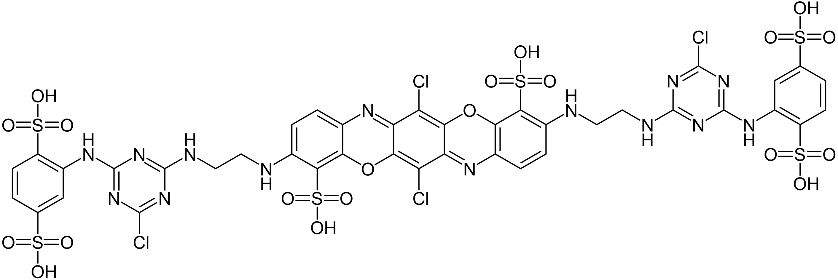 C.I. Reactive Blue 198